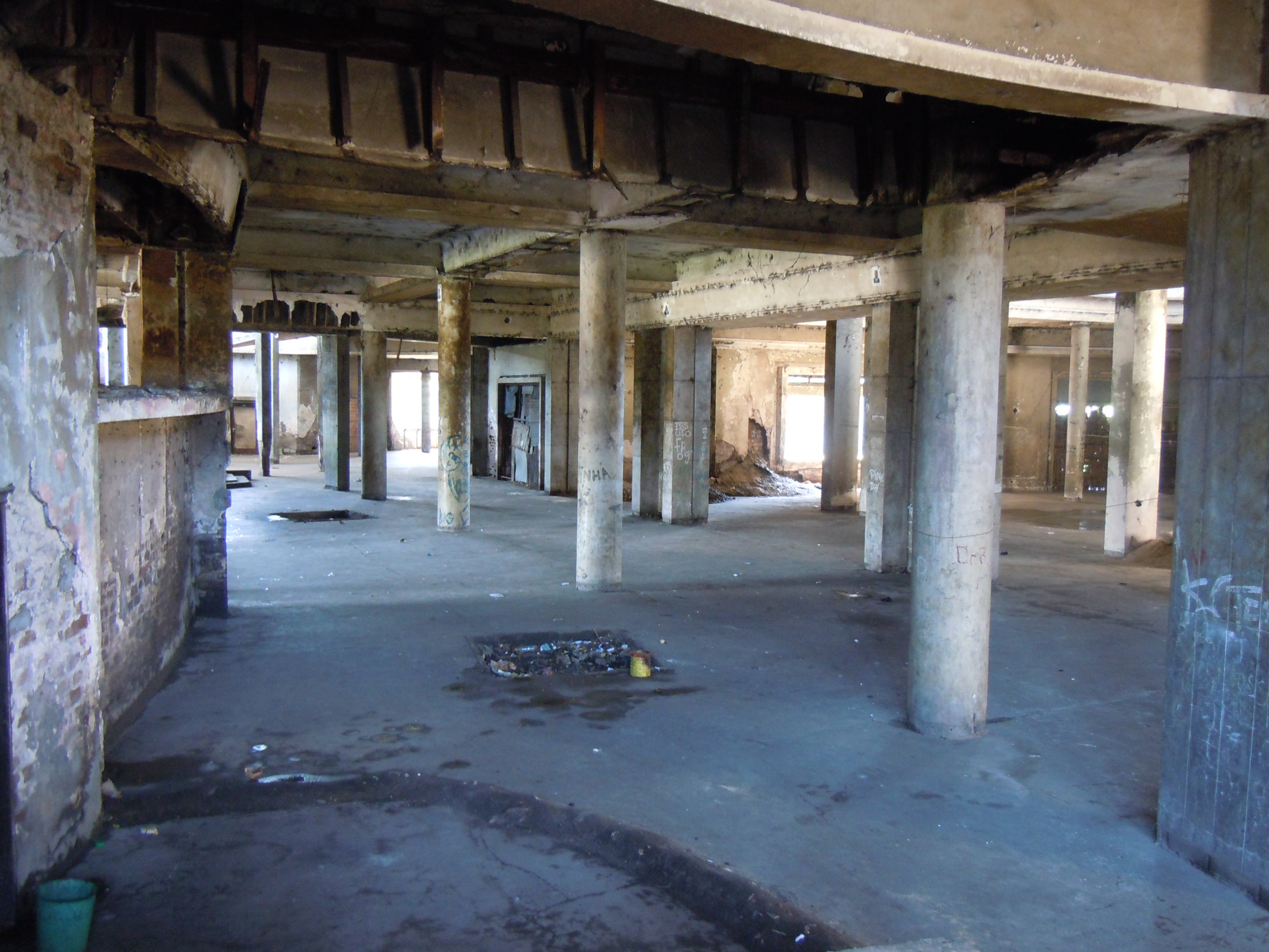 Current situation of the Grande Hotel, interior of original lobby on the ground floor of block A